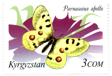 Stamp of Kyrgyzstan